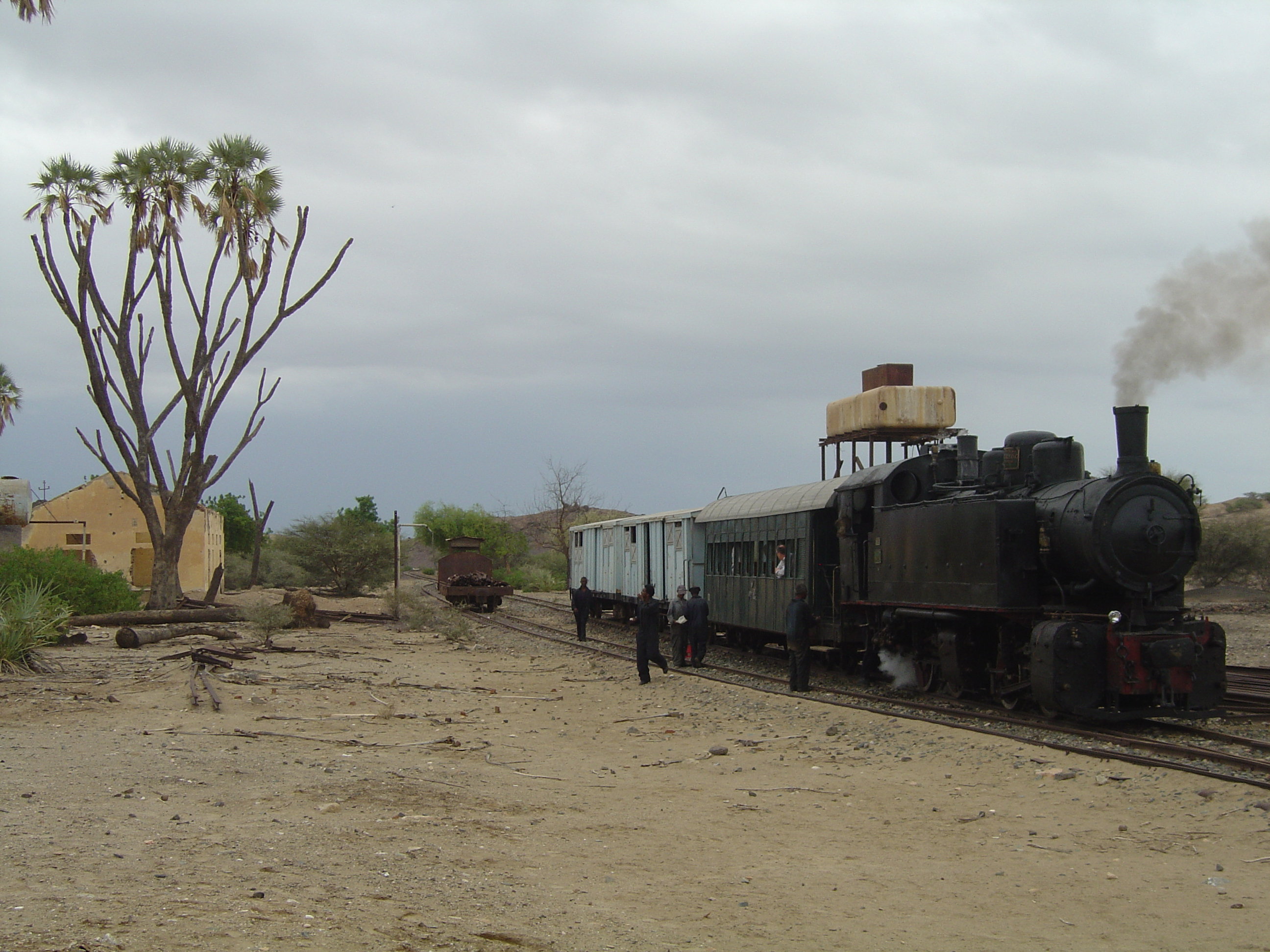 Dogali railway station, Eritrean Railway